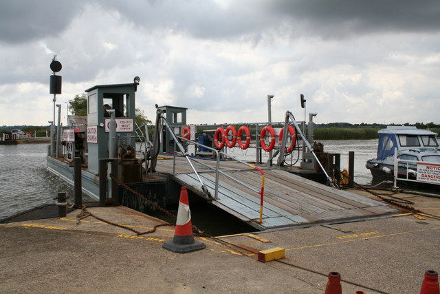 Reedham Chain Ferry, Norfolk I suppose we should be very grateful that this ferry still operates at all, since so many have been withdrawn, but it is expensive. The River Yare is some 50 metres wide here, and if the airlines charged the same rate per mile as Norfolk County Council charges for this ferry, it would cost £1.6 million to fly to Australia - and that's just the single fare!